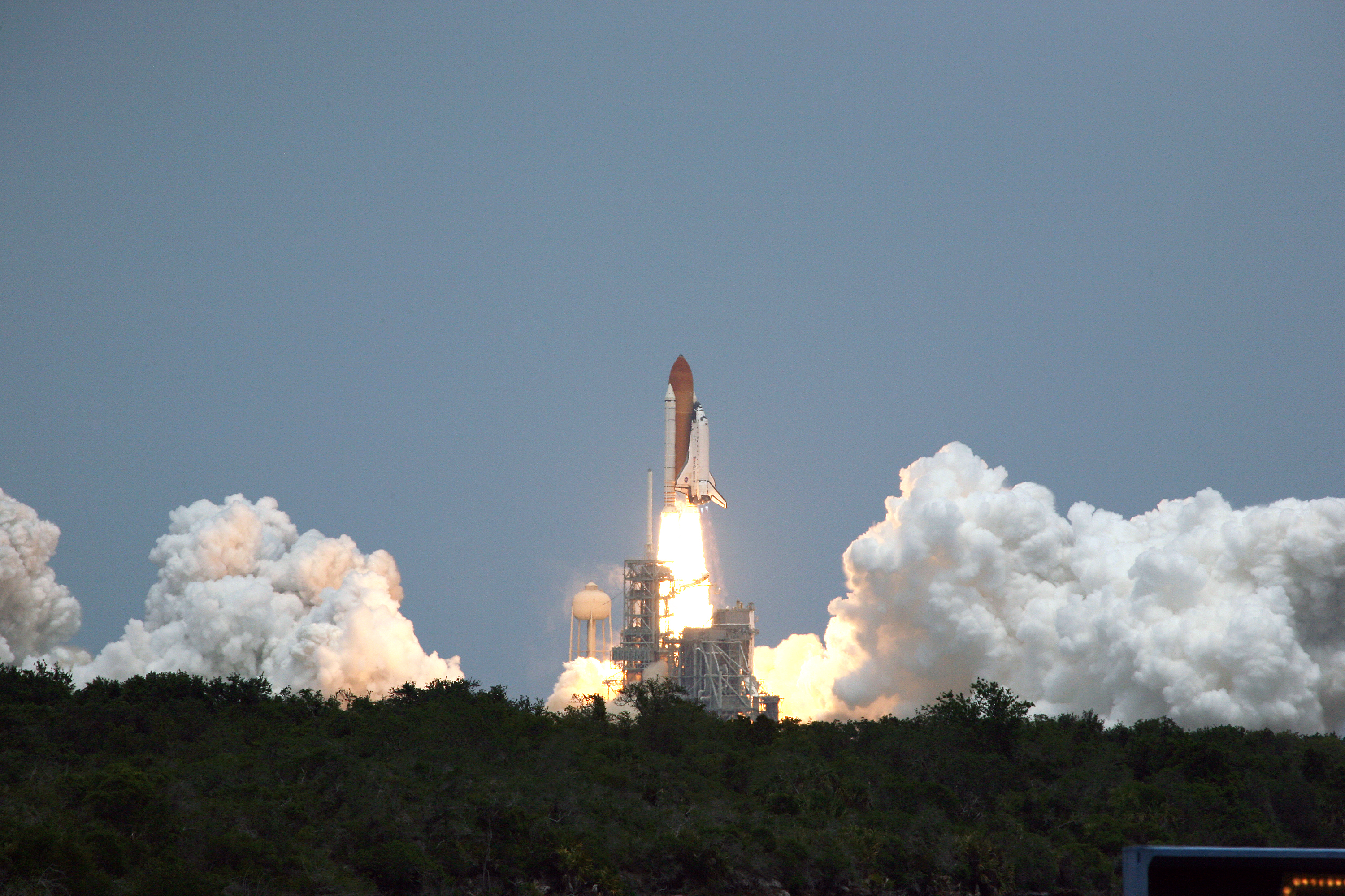 CAPE CANAVERAL, Fla. – Space shuttle Atlantis rides a column of fire as it roars off Launch Pad 39A at NASA's Kennedy Space Center in Florida with its crew of seven for a rendezvous with NASA's Hubble Space Telescope. The launch was on-time at [18:01 GMT] 2:01 p.m. EDT. Atlantis' 11-day flight will include five spacewalks to refurbish and upgrade the telescope with state-of-the-art science instruments that will expand Hubble's capabilities and extend its operational lifespan through at least 2014. The payload includes a Wide Field Camera 3, fine guidance sensor and the Cosmic Origins Spectrograph. Launch of Atlantis on the STS-125 mission is scheduled for [18:01 GMT] 2:01 p.m. May 11 EDT.